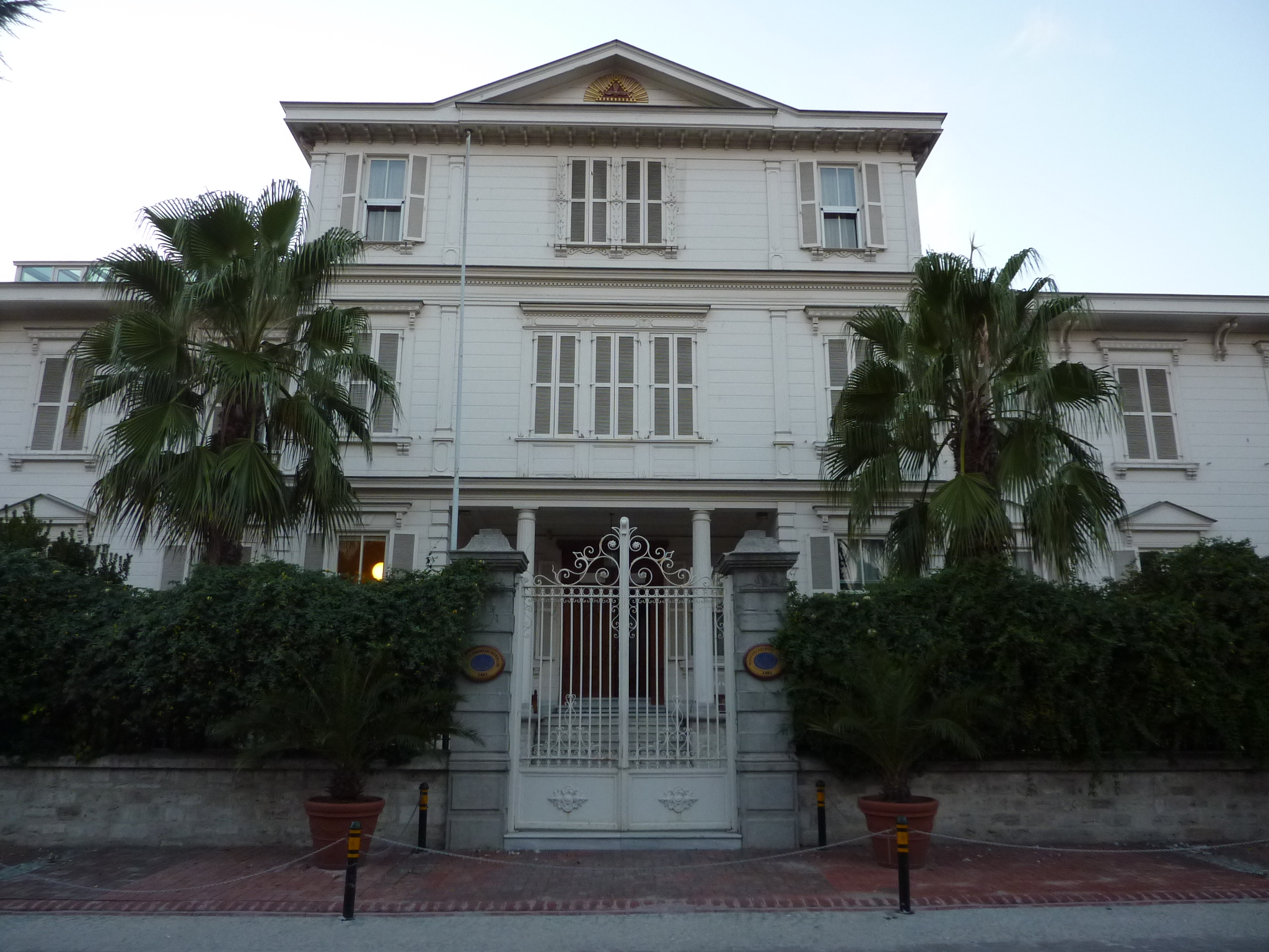 The office building of the Armenian Patriarchate of Constantinople, across the street from the Surp Asdvadzadzin Patriarchal Church.